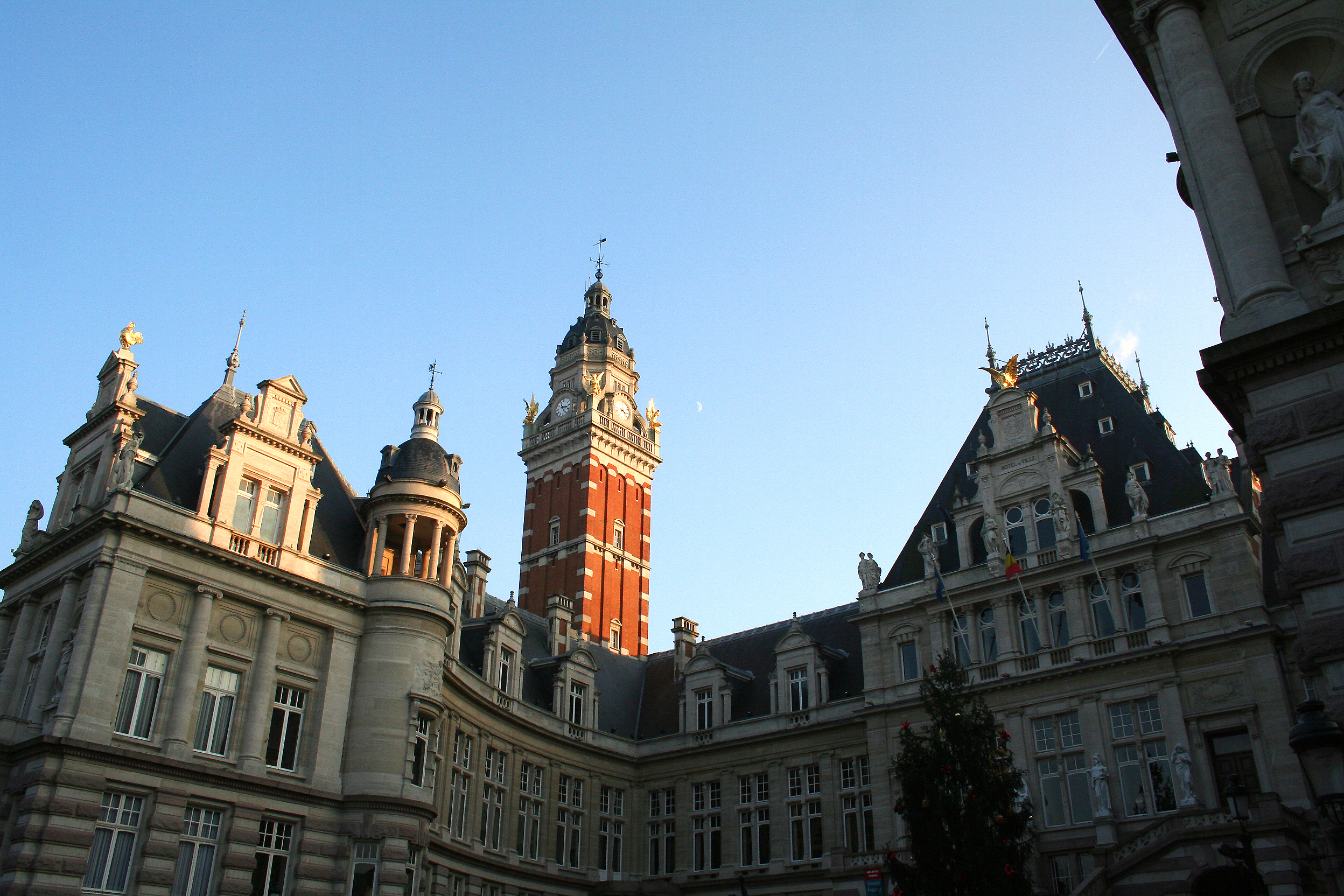 Saint-Gilles (Belgium), the town hall (end of the XIXth century - Architect:Albert Dumont).